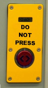 A humorous image - if you put up a sign like this, guess what will happen? Other information This image has been adapted and remixed from the original for humorous purposes